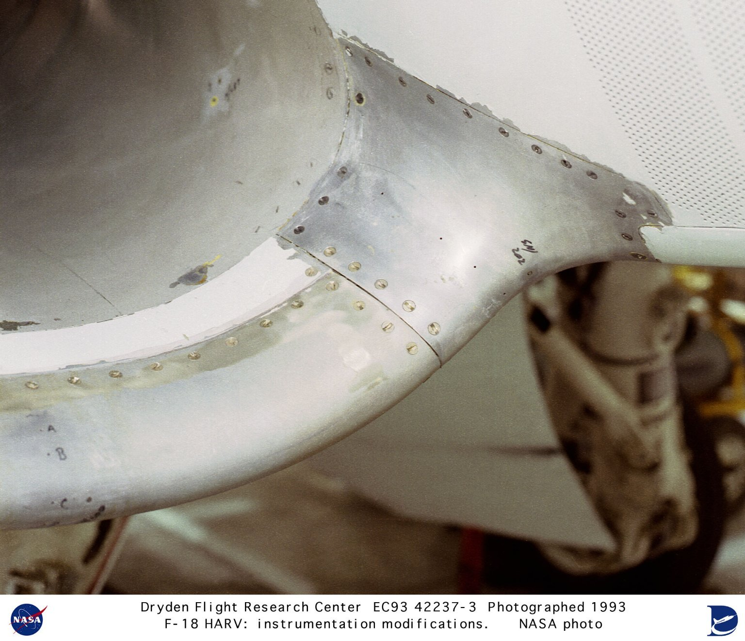 Pressure transducers are located in the tiny holes visible on the engine inlet lip of NASA's F-18 High Alpha Research Vehicle (HARV). The sensors in this photo are located at the inlet and ramp junction at the fuselage of the inlet duct entrance and measure pressure distortions during flight. The highly modified F-18 airplane flew 383 flights at NASA's Dryden Flight Research Center over a nine year period and demonstrated concepts that greatly increase fighter maneuverability. Among concepts proven in the aircraft is the use of paddles to direct jet engine exhaust in cases of extreme altitudes where conventional control surfaces lose effectiveness. Another concept, developed by NASA Langley Research Center, is a deployable wing-like surface installed on the nose of the aircraft for increased right and left (yaw) control on nose-high flight angles. NASA Identifier: NIX-EC93-42237-3